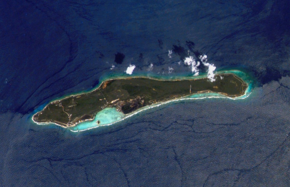 NASA Photo ID: ISS014-E-20406. Little Cayman Island, Cayman Islands, Caribean Sea